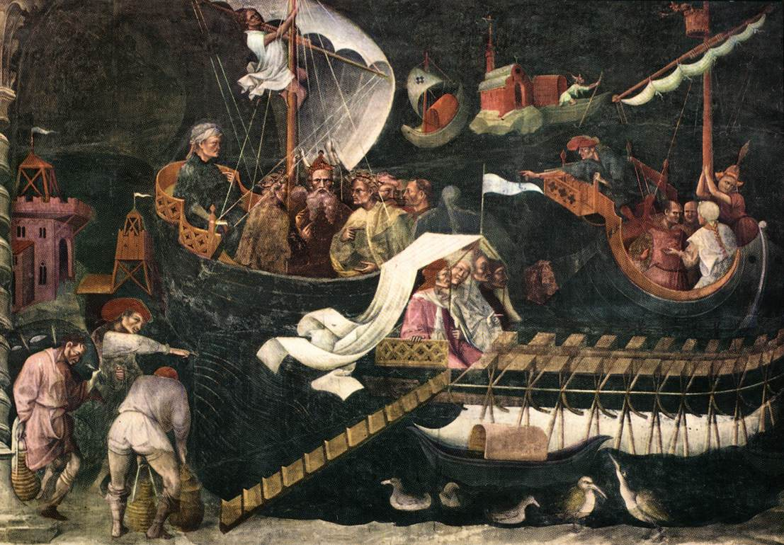 The Return of the Magi